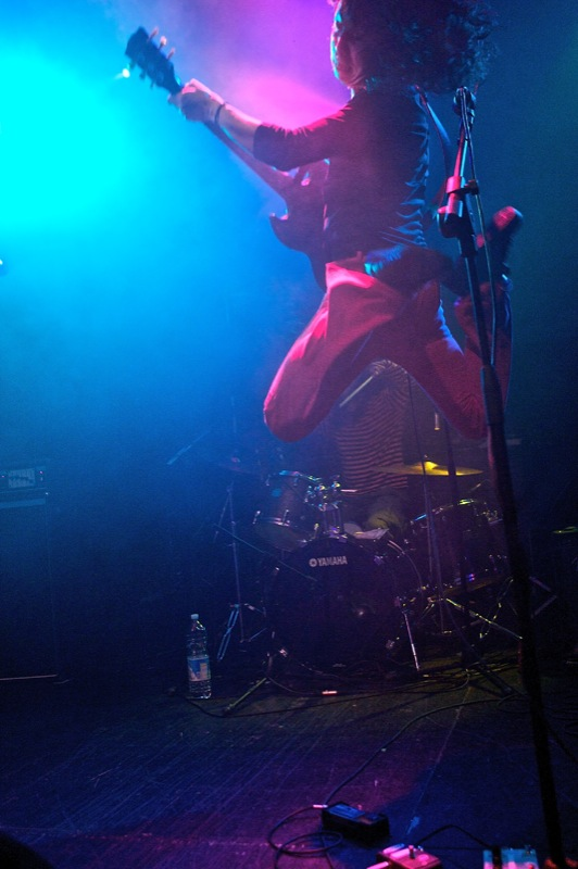 Shintaro Sakamoto and Ichiro Shibata (Yura Yura Teikoku 2009/05/03)